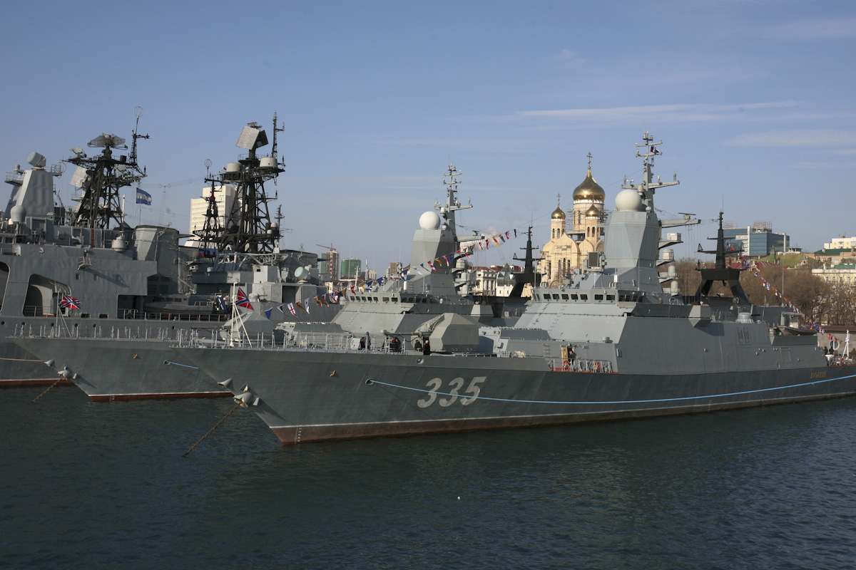 Gromky corvette of Russian Pacific Fleet.